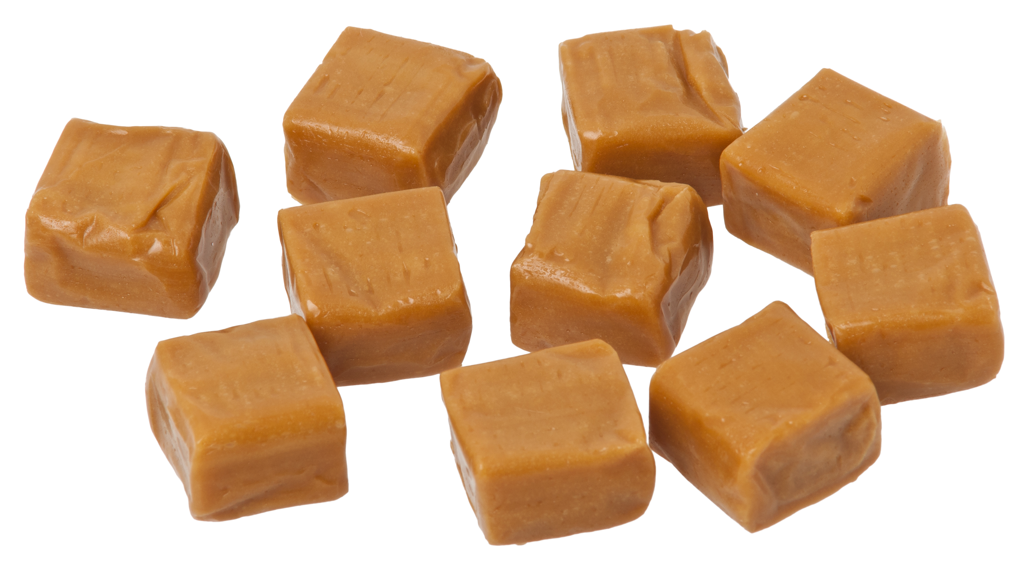 A pile of loose caramels. These are from North America where they are commonly sold in individually-wrapped cellophane.